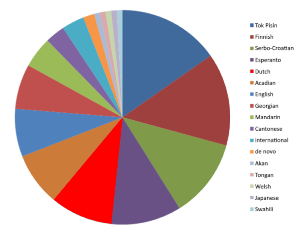 Percentage of Toki Pona roots by language of origin. If a word is shared between two languages (as Finnish and Esperanto sama), it counts as 0.5 words for each. If shared by three or more languages, it is counted as 'international'. The exception are the Tok Pisin words, most of which are also found in English.